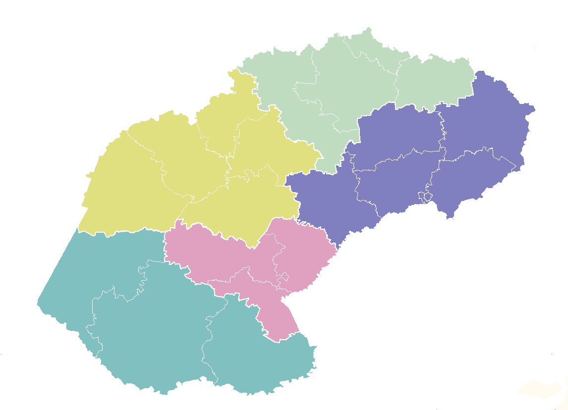 Map showing the Local Municipalities within the Free State.